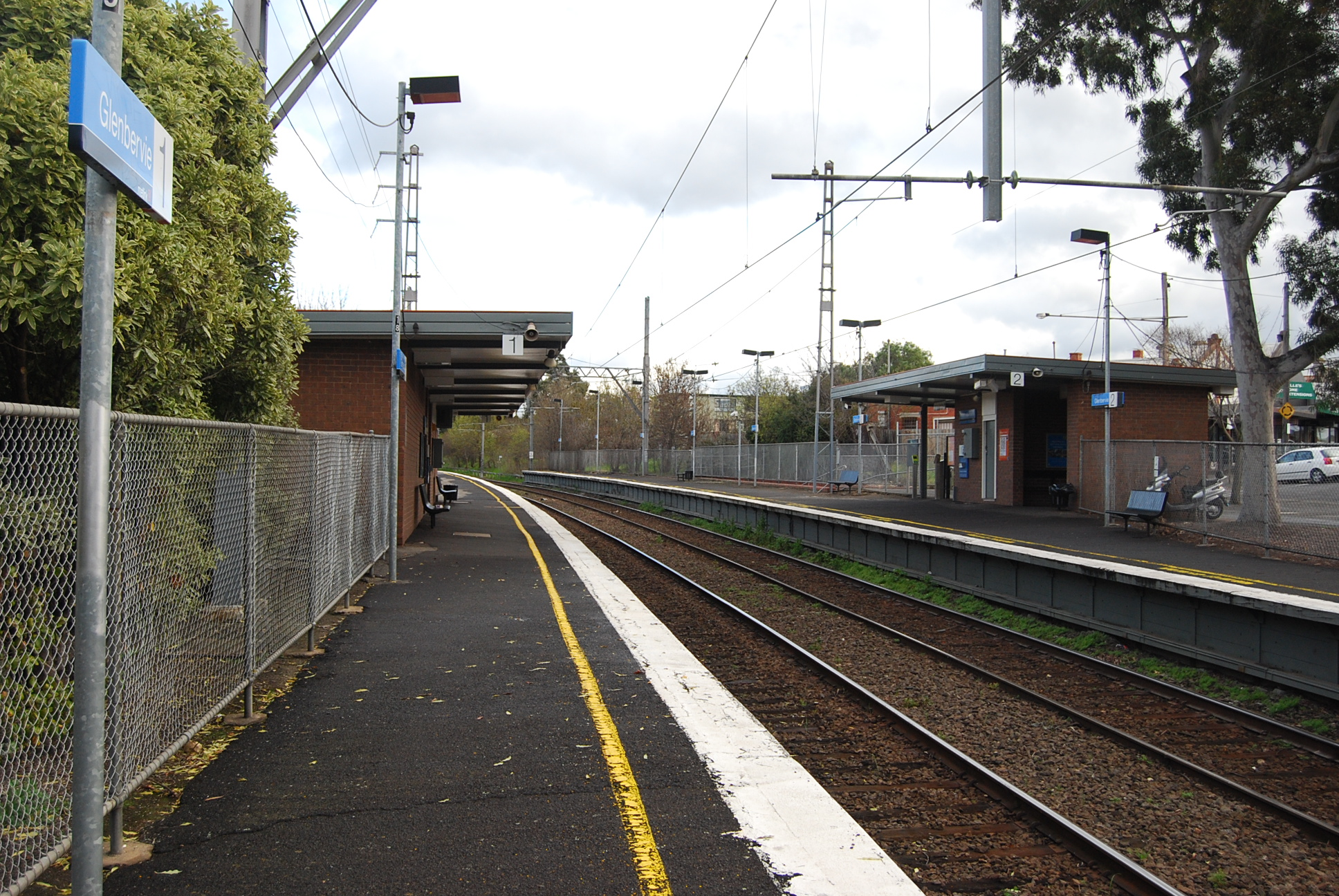 Glenbervie railway station, looking in the up direction. July 2011.